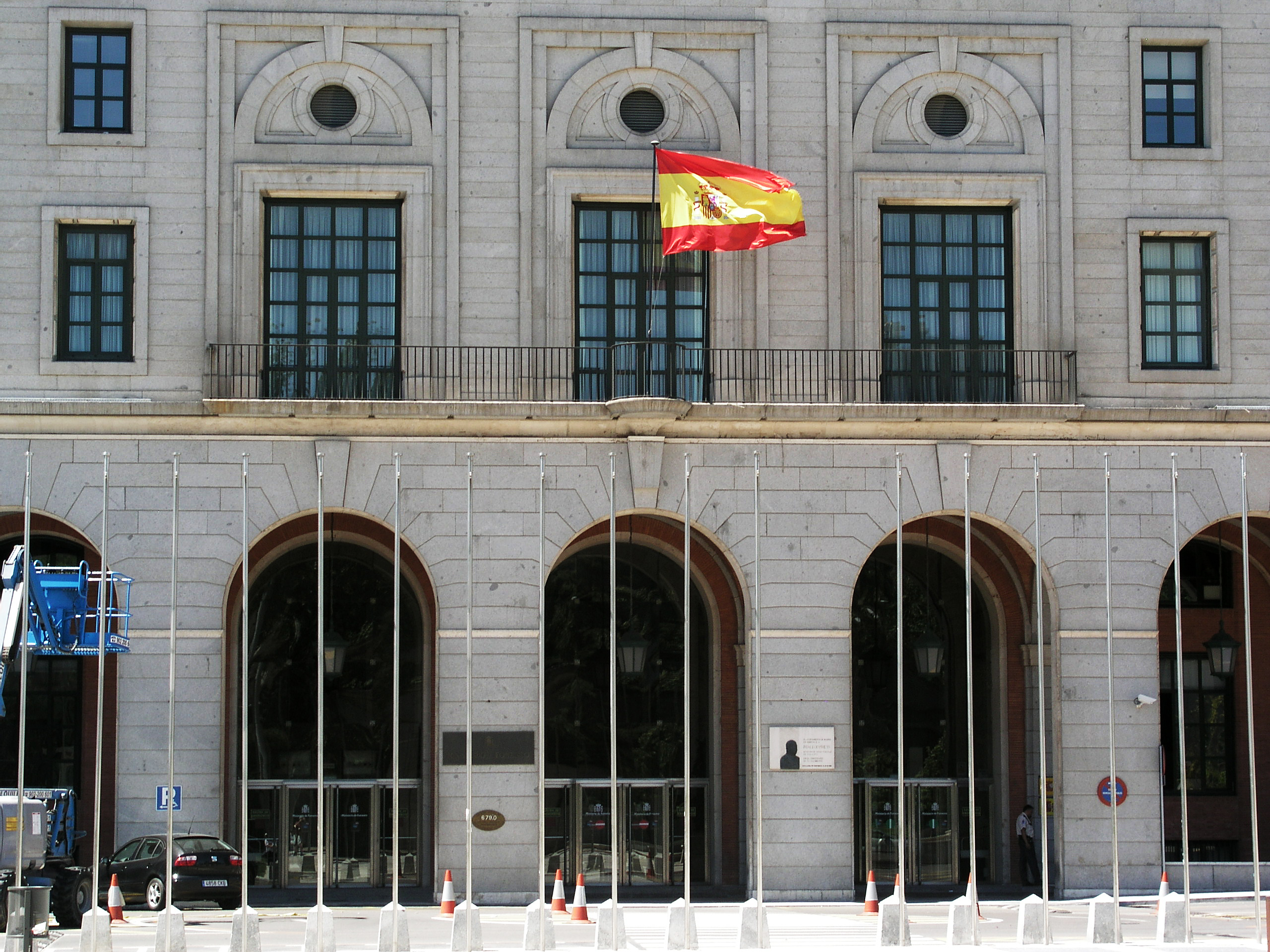 Nuevos ministerios, Madrid, Spain. Entrance.